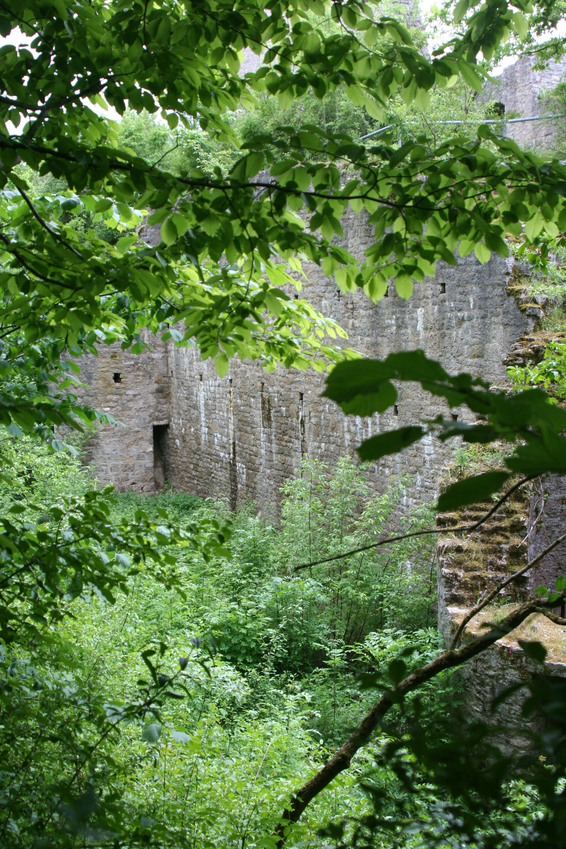 Castle ruin Reichelsburg. The castle’s trench in the East